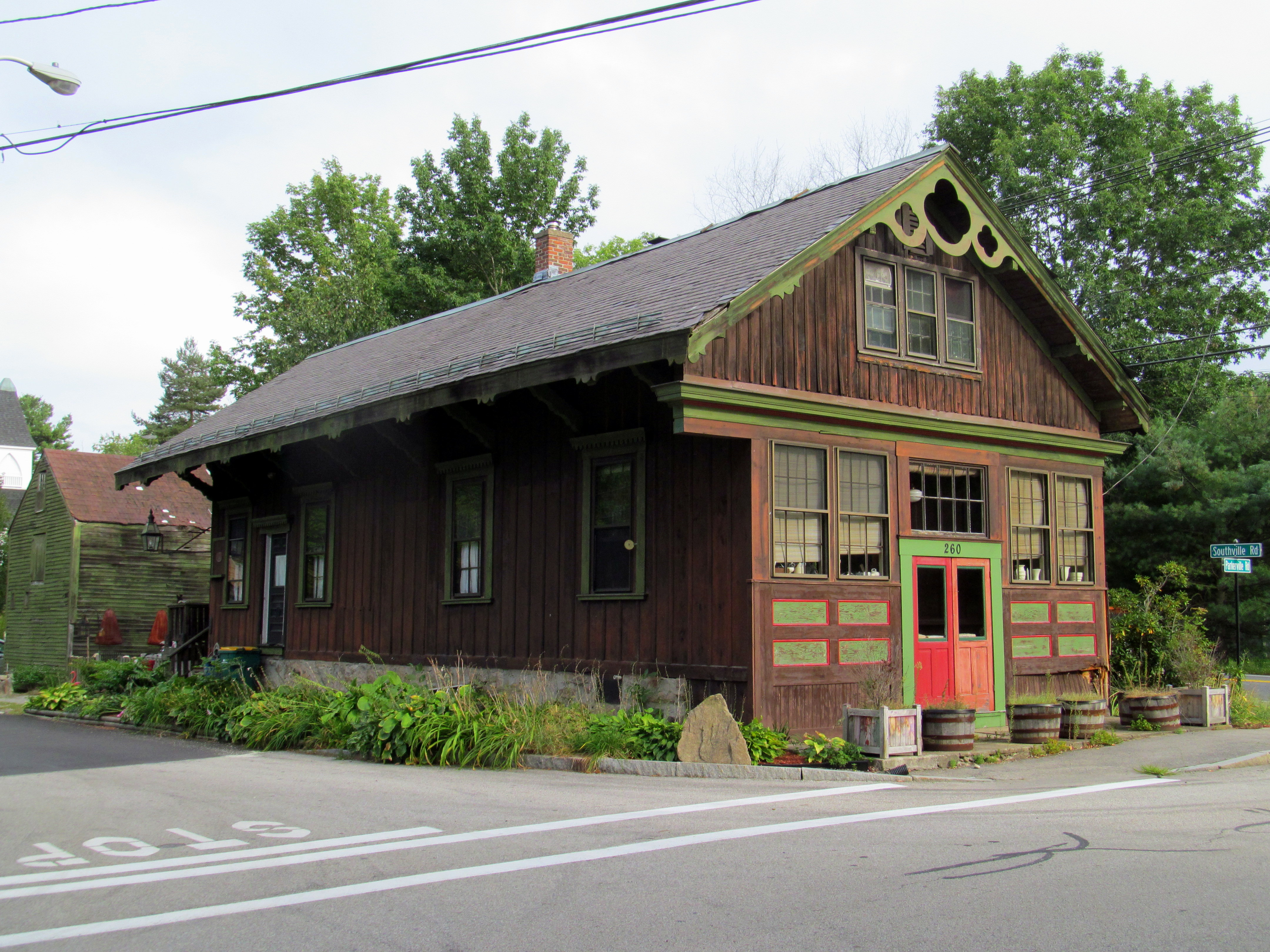 The former Southville station building in September 2016. It likely dates from the original construction of the railroad or shortly thereafter, making it one of the oldest remaining station buildings in the country. Around 1905 it was moved to its present location to serve as a general store (having been replaced by a Romanesque stone structure in the late 19th century); in 1973 it became a private residence.